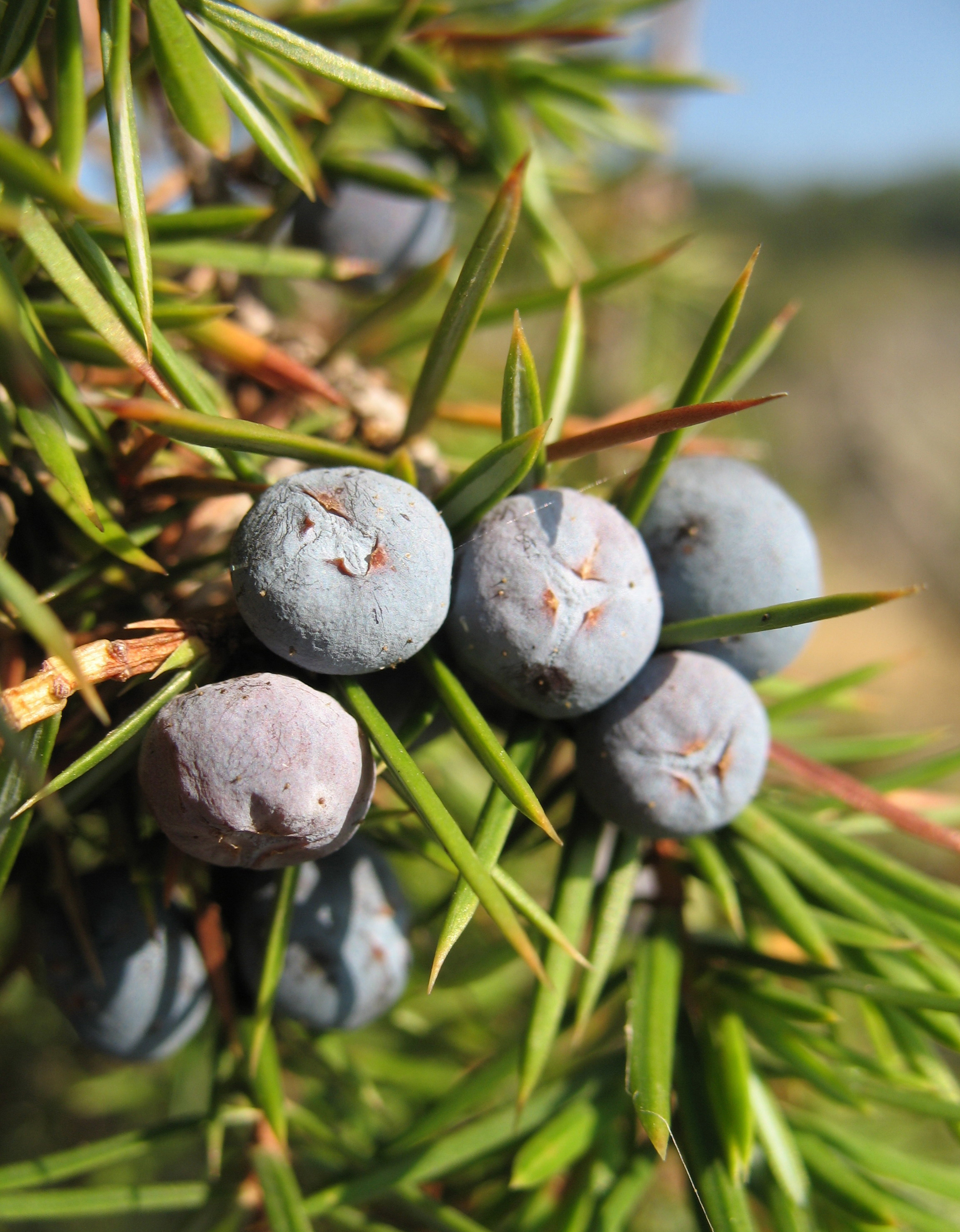 Juniperus communis var. communis, foliage and cones. Italy.